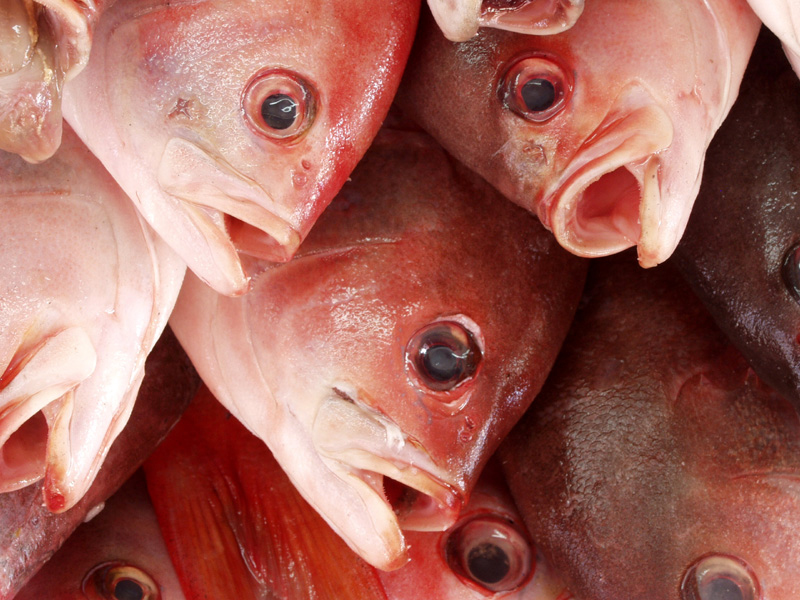 Fish at Ensenada´s fishmarket